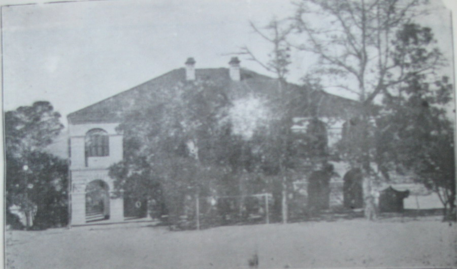 Hok-ling Building of Foochow Anglo-Chinese College in early times Mìng-dĕ̤ng-ngṳ̄: Ká̤-nièng gì Hók-ciŭ Ĭng-huà Cṳ̆-iêng Hŏk-lìng-làu